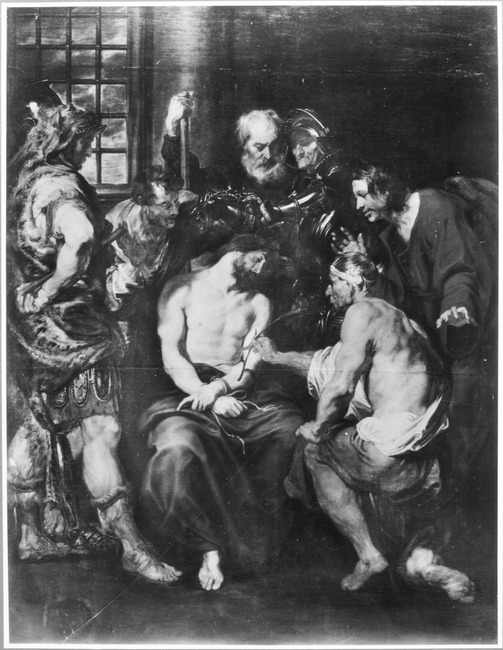 Christ is mocked by soldiers